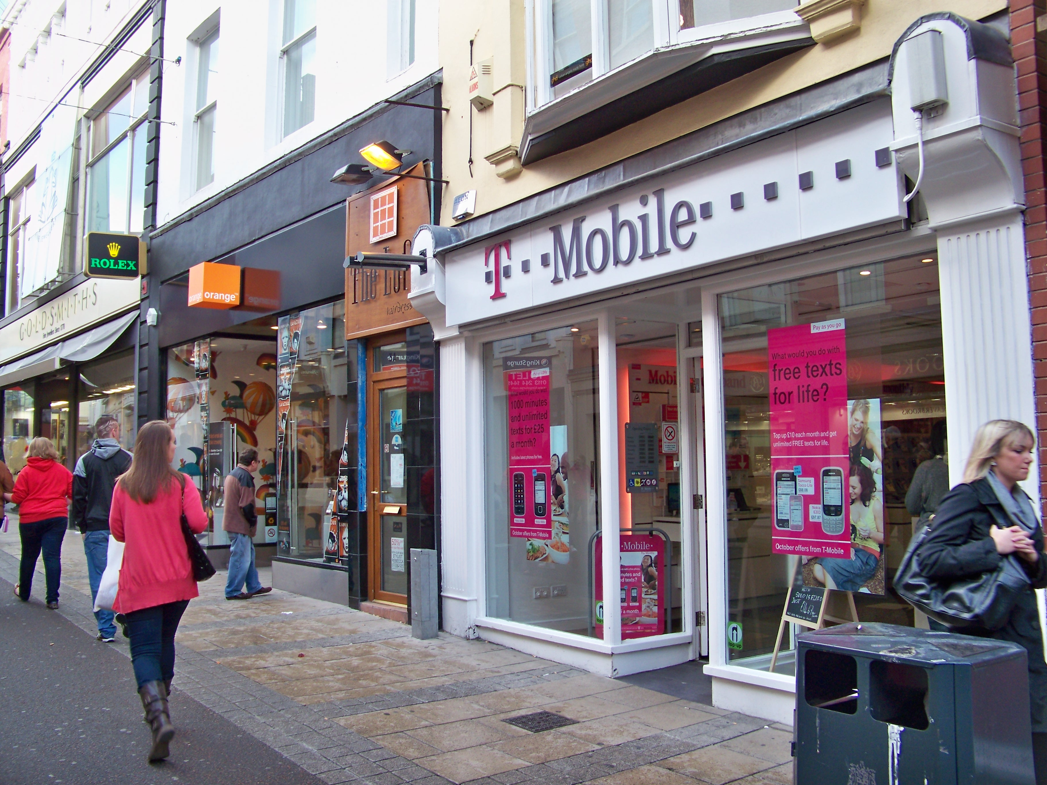 Adjacent (discounting access to a first floor retail space) Orange and T.Mobile retail shops on Commercial Street in Leeds, taken during merger talks between the two smallest of the four major UK network providers. Taken on the afternoon of Saturday the 3rd of October 2009.